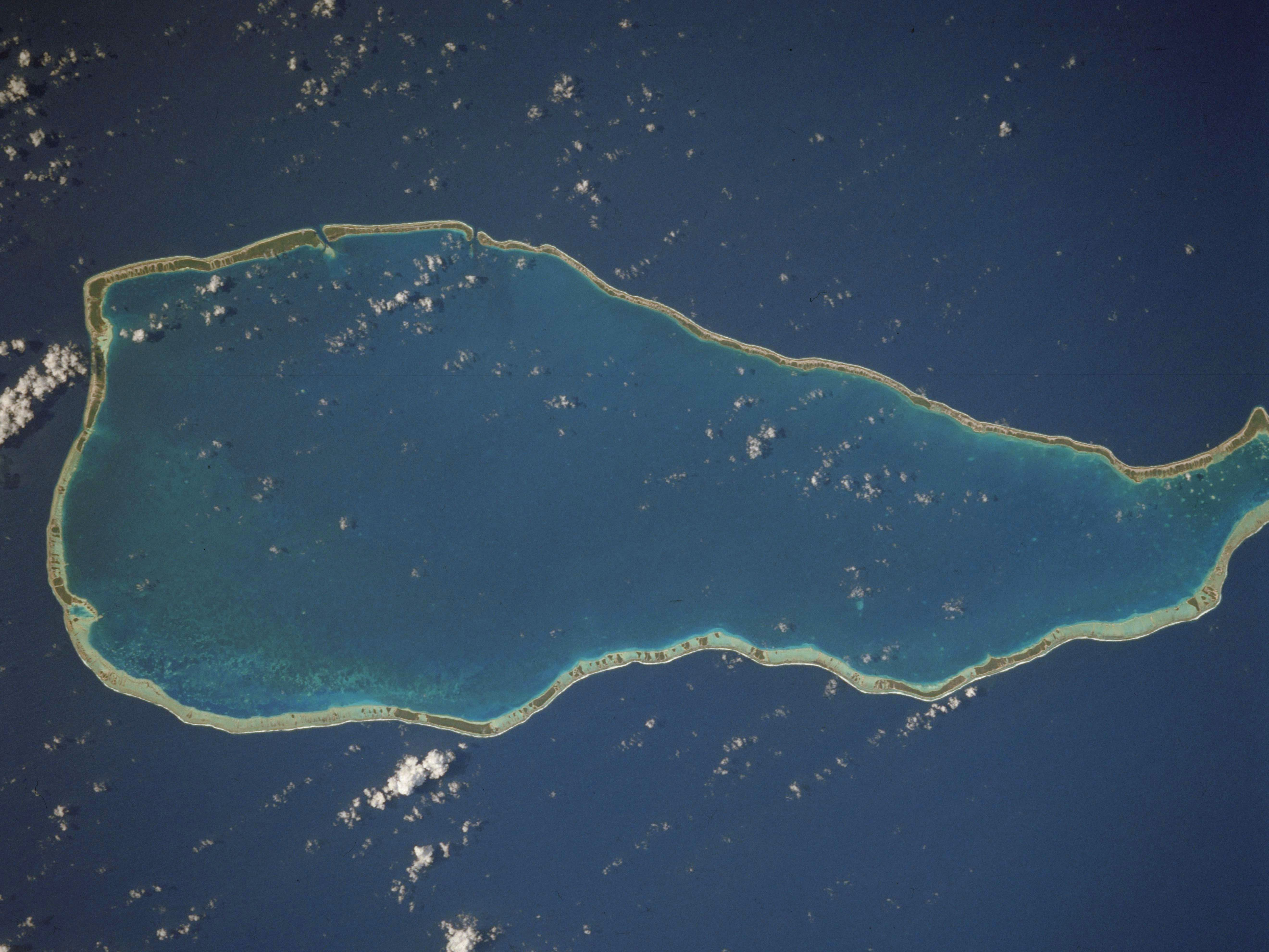 NASA astronaut image of Rangiroa Atoll (Tuamotu Archipelago, French Polynesia) in the Pacific Ocean